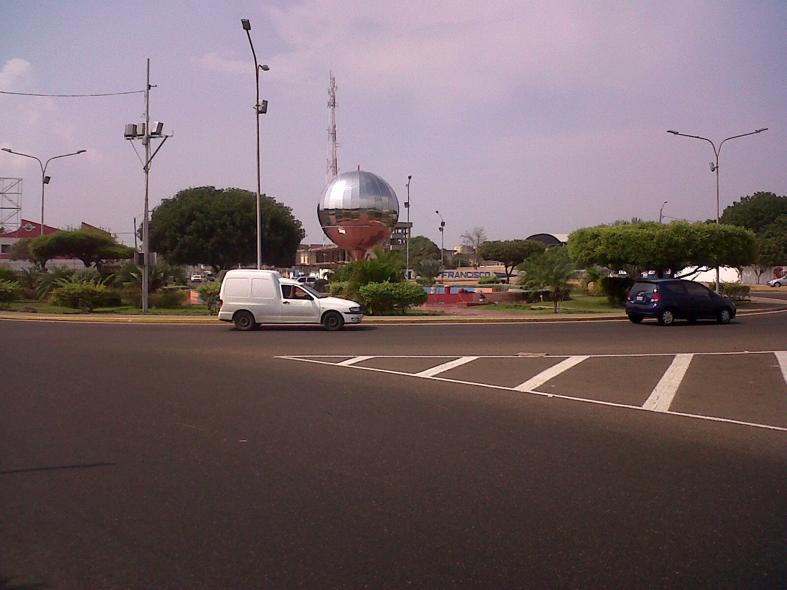 avenue